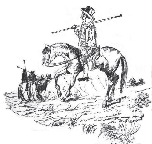 Drawing of a traditional Occitan rider